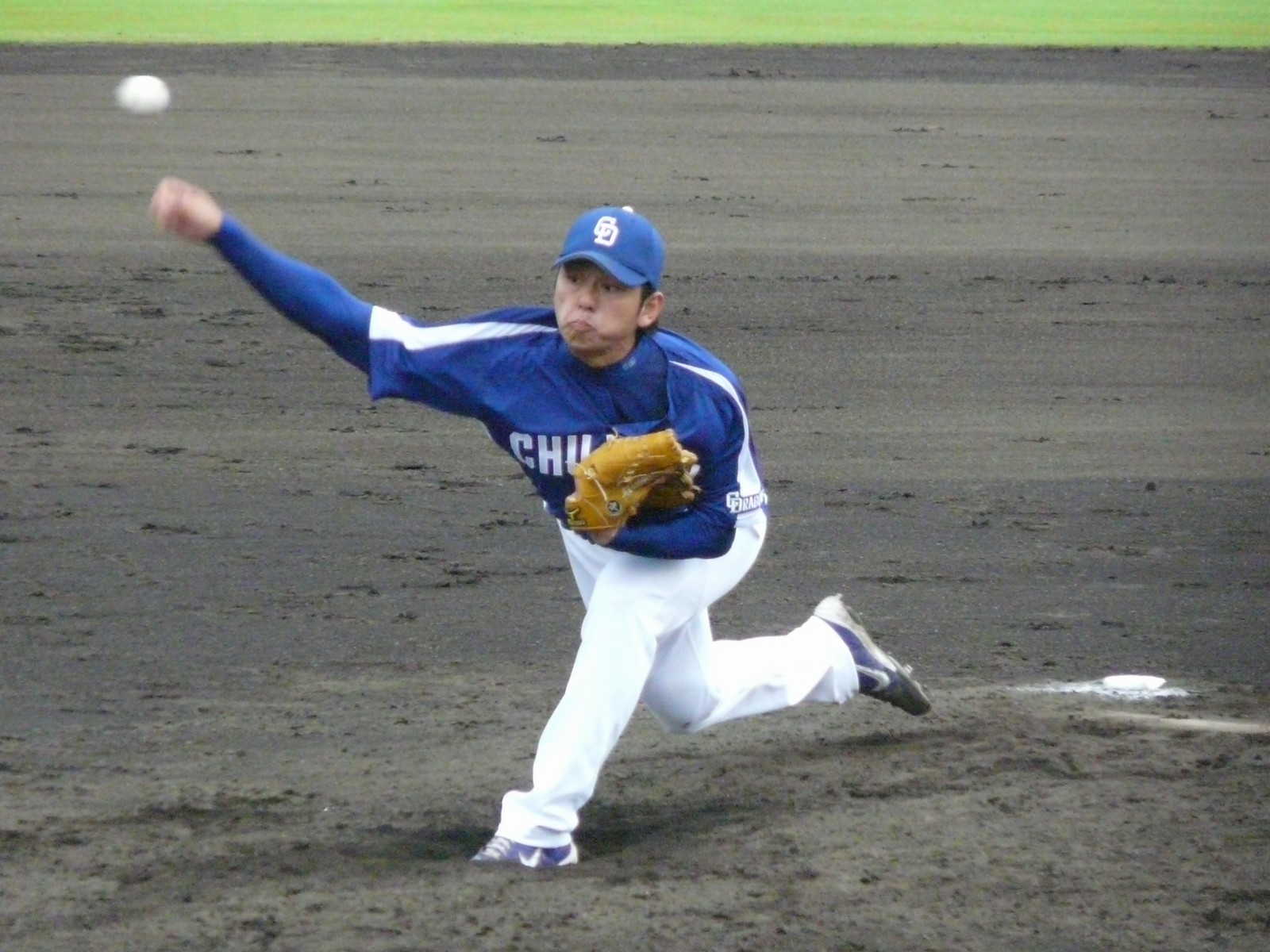 Copied from 画像:CD-Atsushi-Nakazato.jpg: "中里篤史"